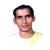 Late Madiyala Narayan Bhat is the founder of Sri Sathya Sai Loka Seva trust,Alike and Muddenahalli(formerly Loka Seva Vrinda)